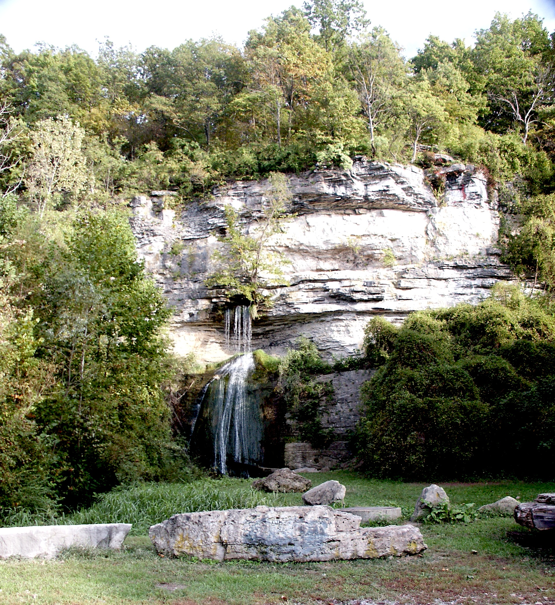 This photo taken by Marcusscotus1 in October, 2005, at Falling Springs, near Cahokia, Illinois. (Closer to Dupo, Illinois.)